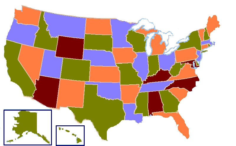 A map of the United States showing four colors. According to the four color theorem, only four colors are needed to complete a map containing any type of shapes provided that two touching shapes share a border of at least two points (a line).